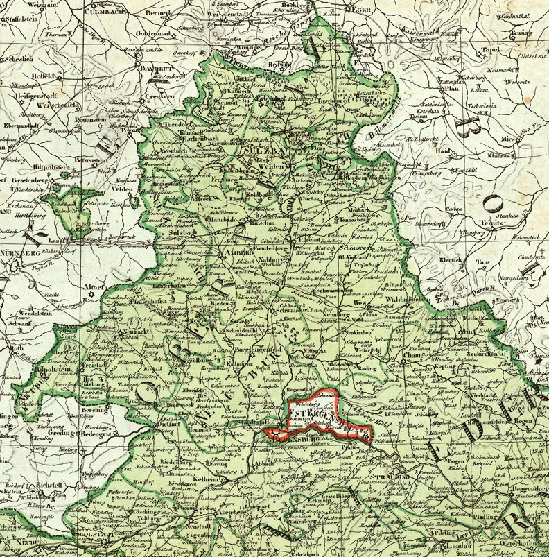 Detail of a map from 1807 showing the Principality of Regensburg (German: Fürstentum Regensburg) enclaved within the Kingdom of Bavaria (in green). The ephemeral principality (1803 to 1810) had been formed with the territories of the former Prince-Bishopric of Regensburg and Free Imperial City of Regensburg. Cropped from a map of the Kingdom of Bavaria published in 1807 by the Geographical Institute of Weimar.